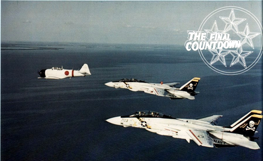 Two U.S. Navy Grumman F-14A Tomcat from Fighter Squadron 84 (VF-84) "Jolly Rogers" during the filming of the movie "The final Countdown" in 1979. The movie included a dogfight between VF-84 Tomcats and Imperial Japanese Navy Mitsubishi A6M2 Zero fighters (as shown). However, the Zeros were acutually modified North American T-6 Texan trainers.